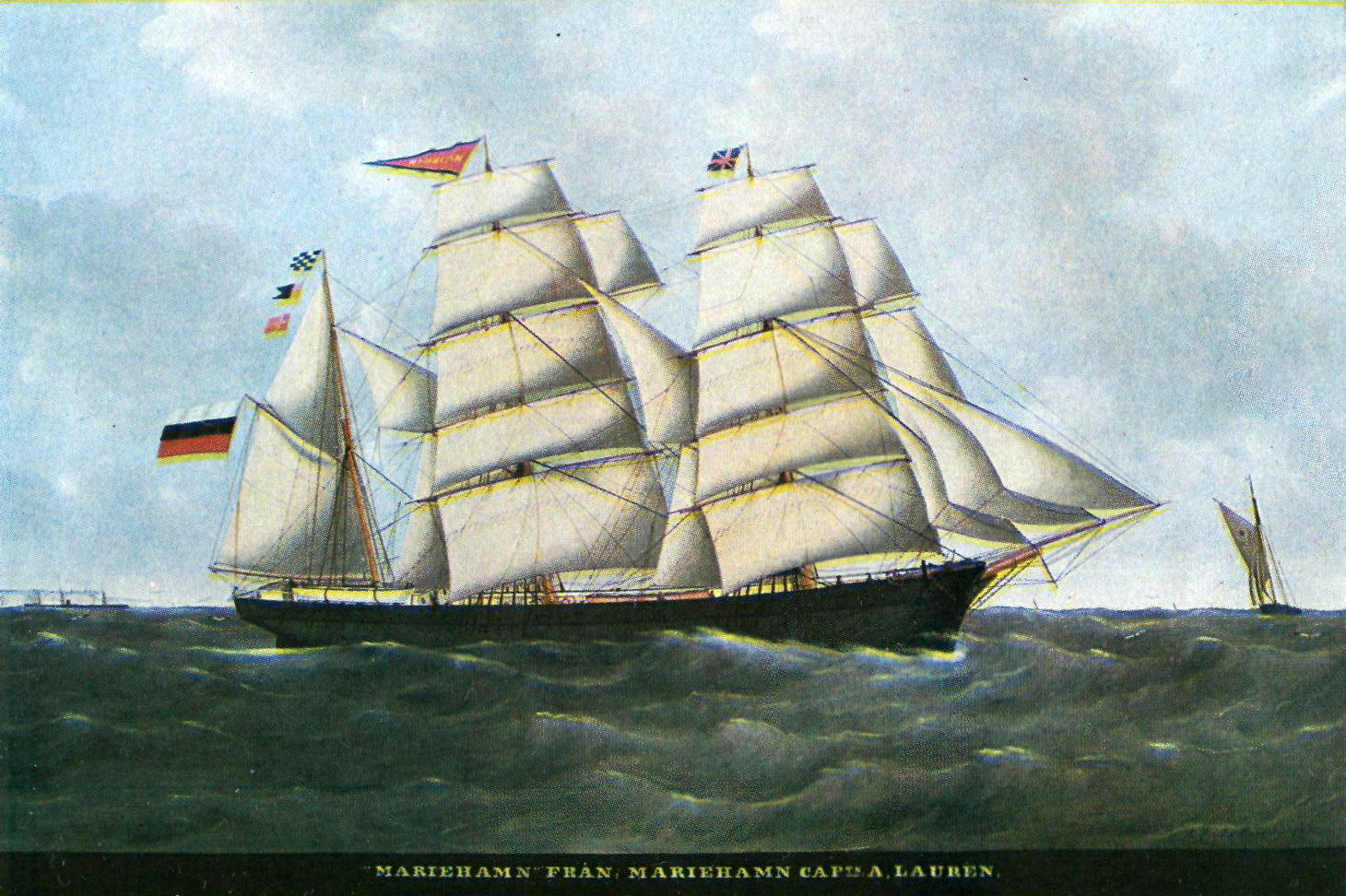 The Barque Mariehamn.